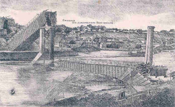 Destroyed railway bridge across Neman river in Hrodna, Belarus. Postcard made in 1915.